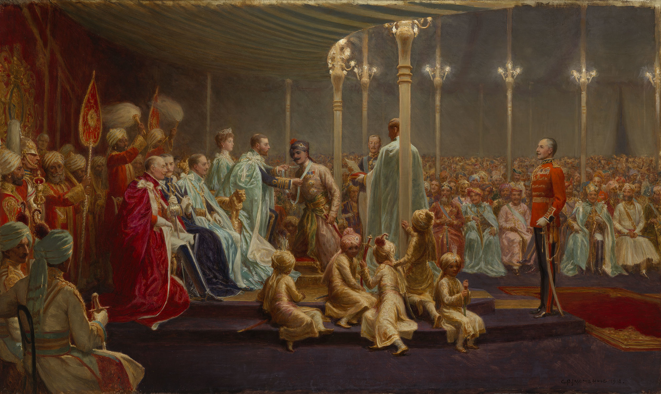 Investiture ceremony by King George V during the Delhi Durbar, 1911. The ceremony took place in the reception pavilions of the King-Emperor's Camp on the Bawari Plain, Delhi, evening of 14 December 1911. Ganga Singh, the Maharaja of Bikaner, is shown receiving the insignia of the Knight Grand Commander of the Star of India (GCSI). Source: The Historical Record of the Imperial Visit to India, 1911. London: John Murray (1914), pp. vii, 220. The painting was commissioned by the Maharaja in October 1912 and completed in England c1913 from sketches and photographs taken in India. Source: "Errata." History of Photography, Vol. 13, Issue 2, April-June 1989, p. 189. The artist and illustrator George Percy Jacomb-Hood trained at the Slade School of Art and in Paris before becoming artist-correspondent of the Graphic. It was in this role that he accompanied several royal visits to India at the start of the century. In October 1911 he travelled as part of the Royal suite to India on HMS Medina with King George V and Queen Mary; the high-point of the tour was the Delhi Durbar.